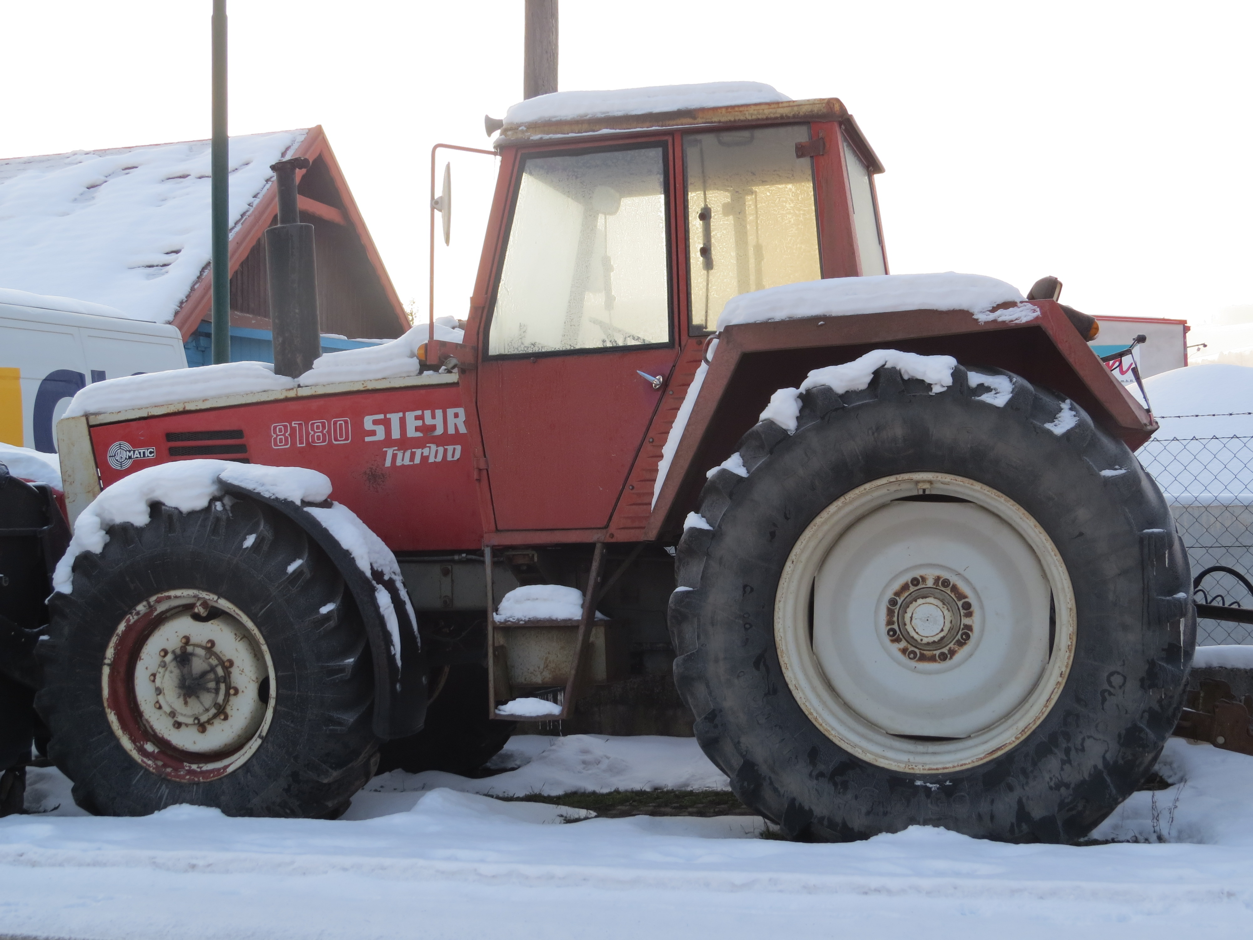 Steyr 8180 in Hofstetten-Grünau